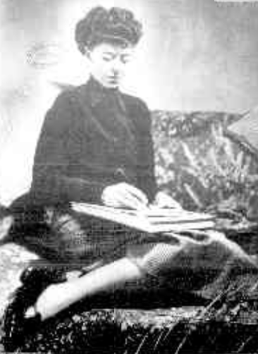 Peggy Glanville-Hicks (1912-1990) Australian composer